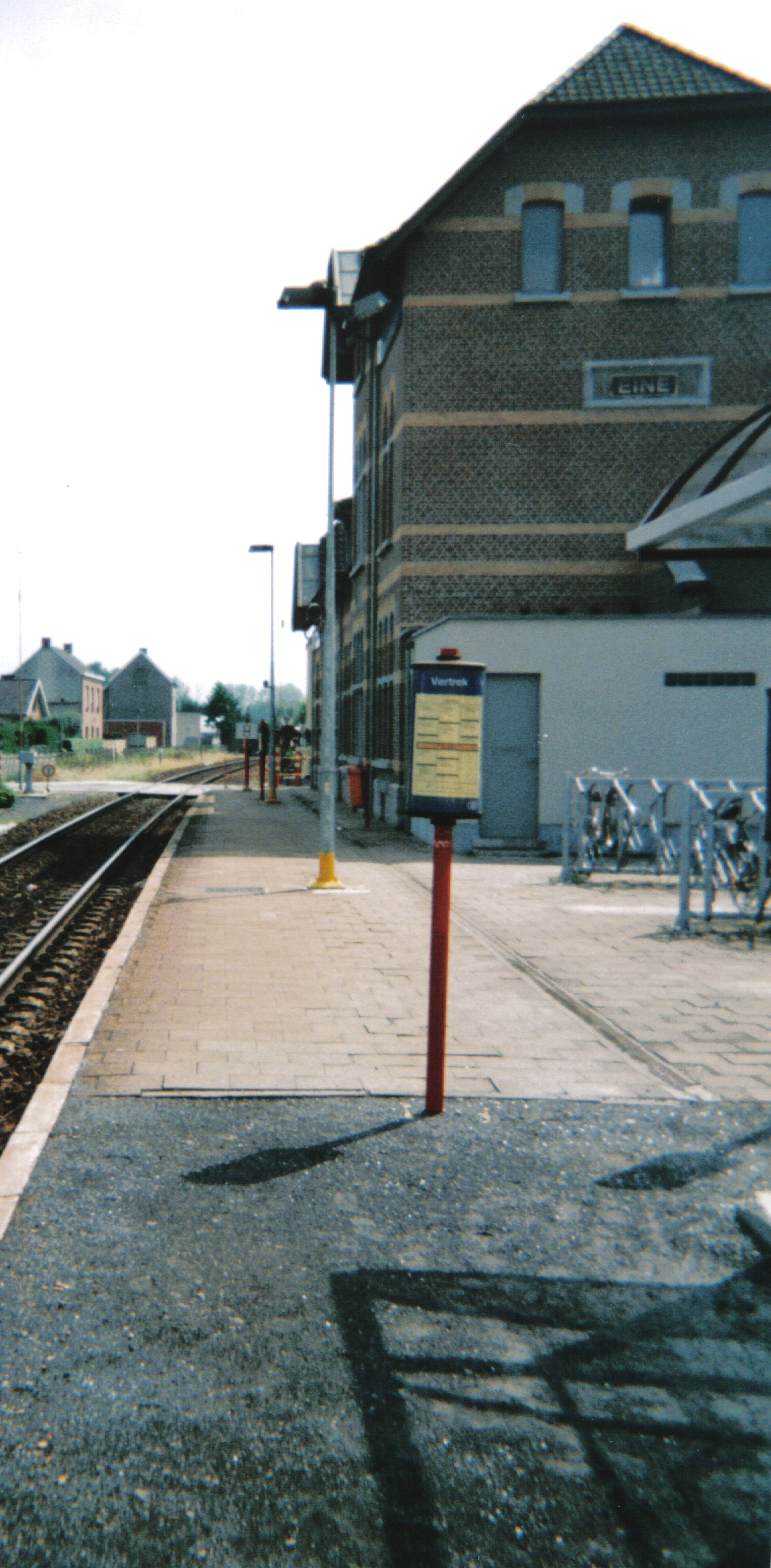 The railway station of Eine, a submunicipality of Oudenaarde, Belgium.